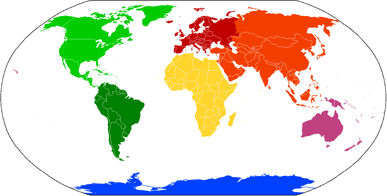 Compiled chiefly from File:BlankMap-World.png. Blank to permit labels in various languages. Controversial continents/subcontinents (i.e. one or two Americas, Eurasia vs Europe and Asia) are in different shades of the same colour: Americas: North America South America Eurasia: Asia Europe Africa Australia/Oceania Antarctica